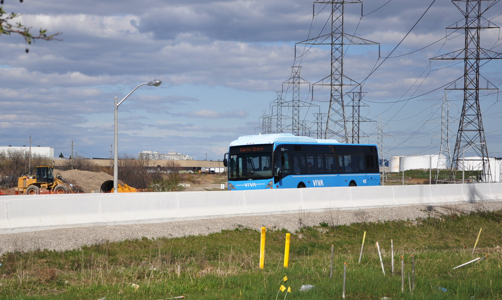 A Viva Orange bus traveling on the York University Busway, in Toronto, Ontario, Canada.